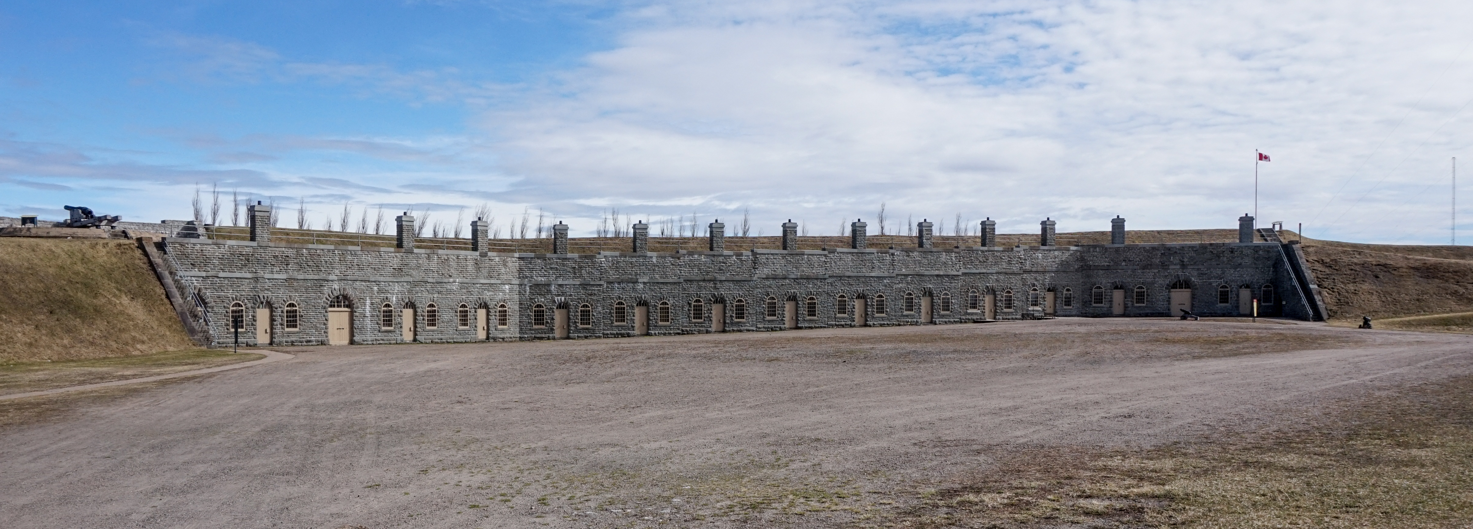 Bunkers of Fort No. 1, Lévis, Québec, Canada